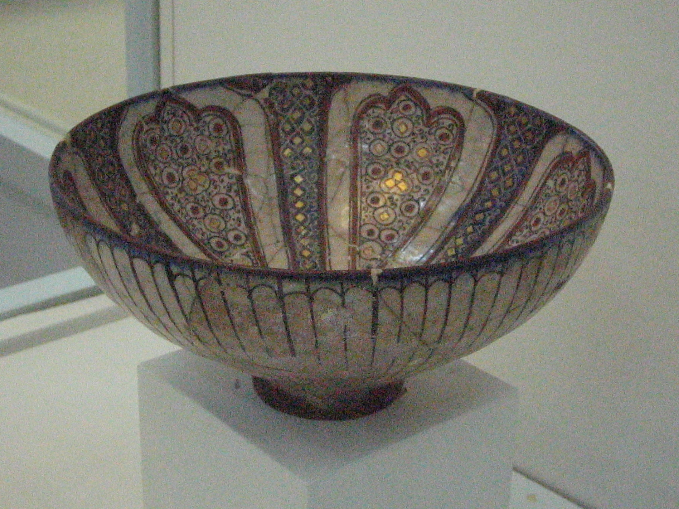 Bowl over glaze painted & gilded, Kashan, style soltan abad, XIVth century. National Iran Museum, Tehran.